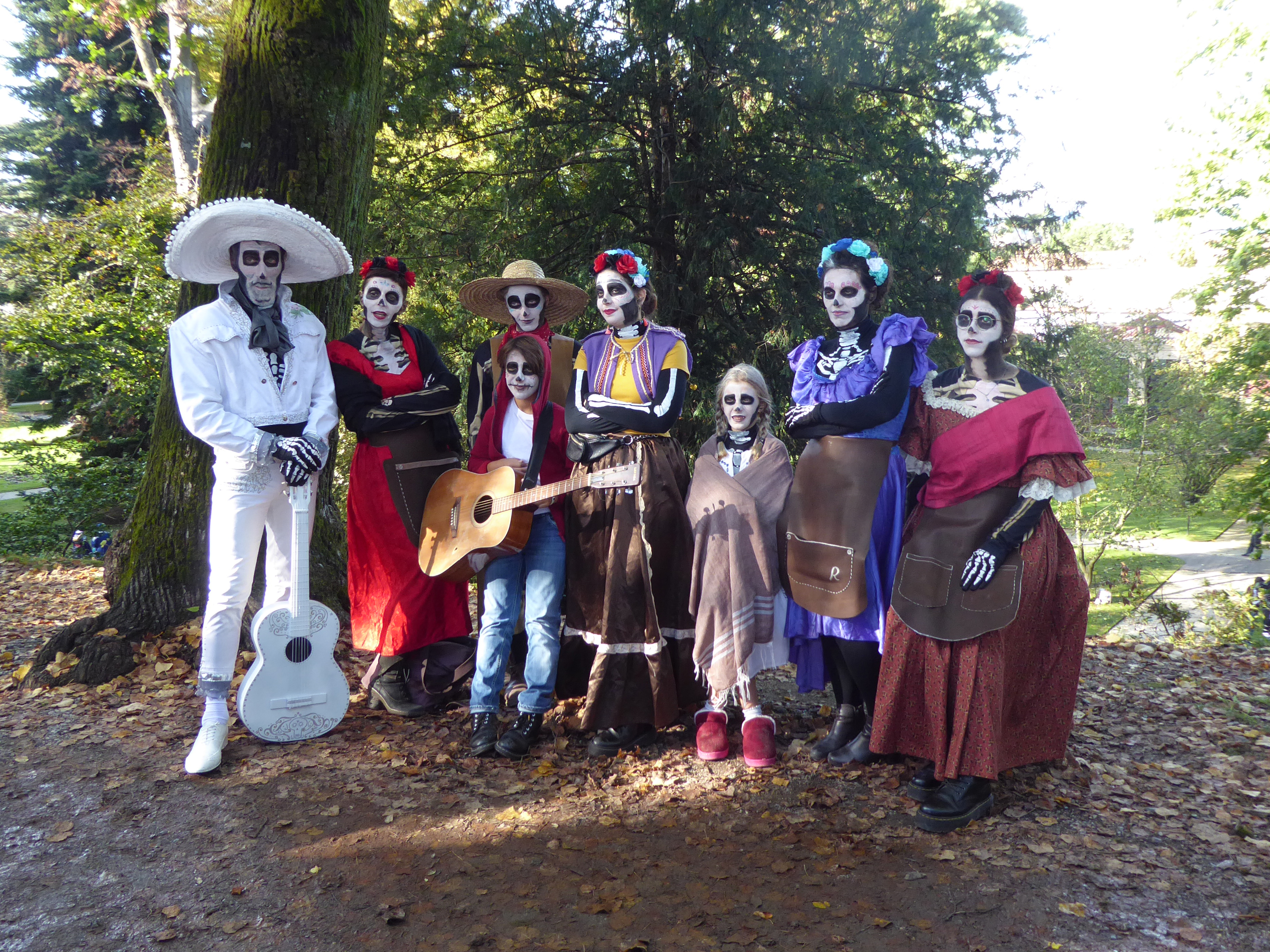 Lucca Comics & Games 2019 - Cosplay of Coco